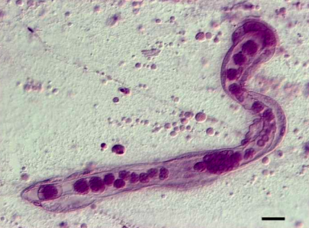 This photo shows Dicyema japonicum Furuya and Tsuneki, 1992 from Octopus sinensis d'Orbigny, 1841 (Japanese common octopus) taken by Hidetaka Furuya, the researcher of Dicyemida.